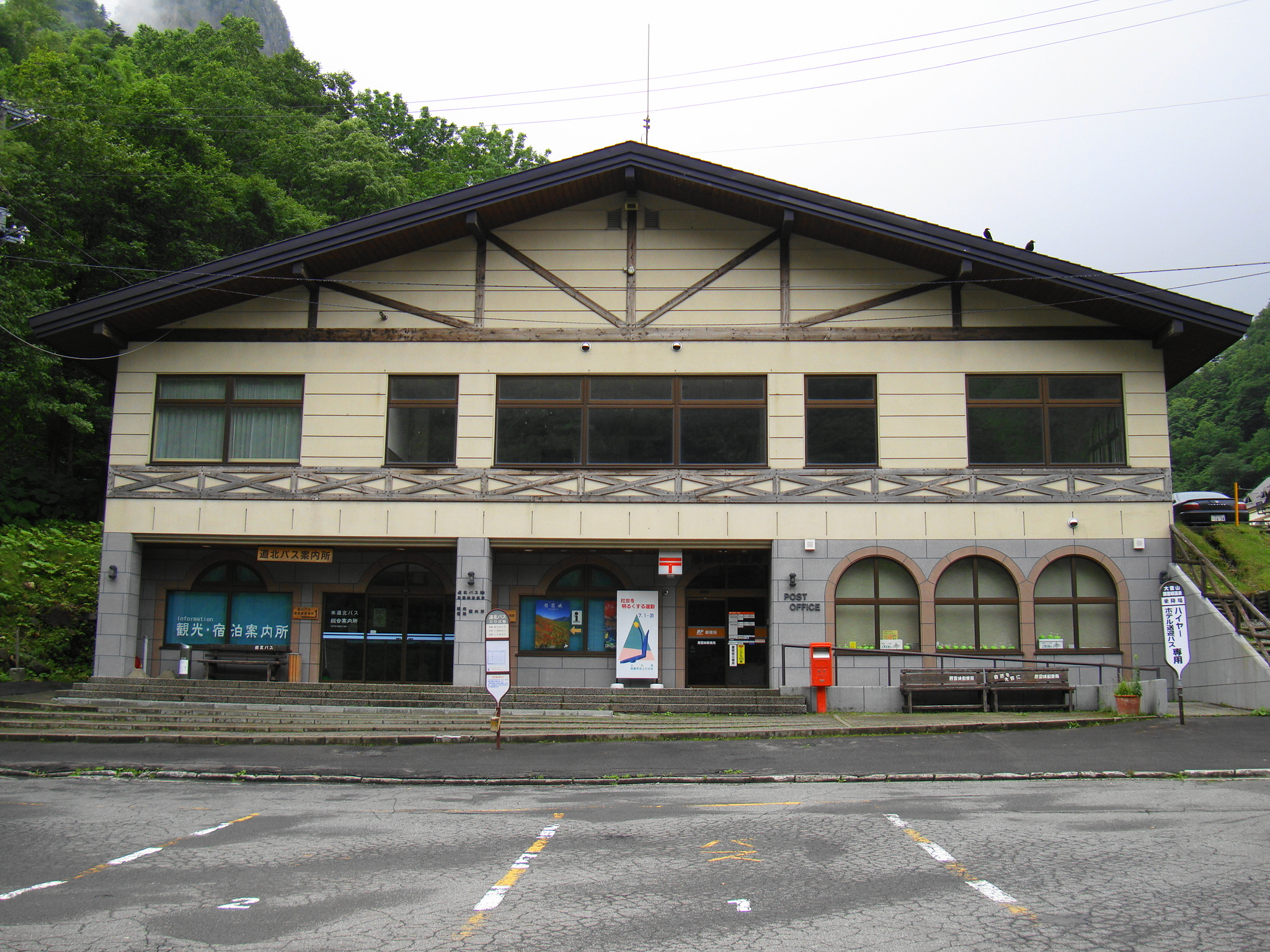 Sōunkyō information